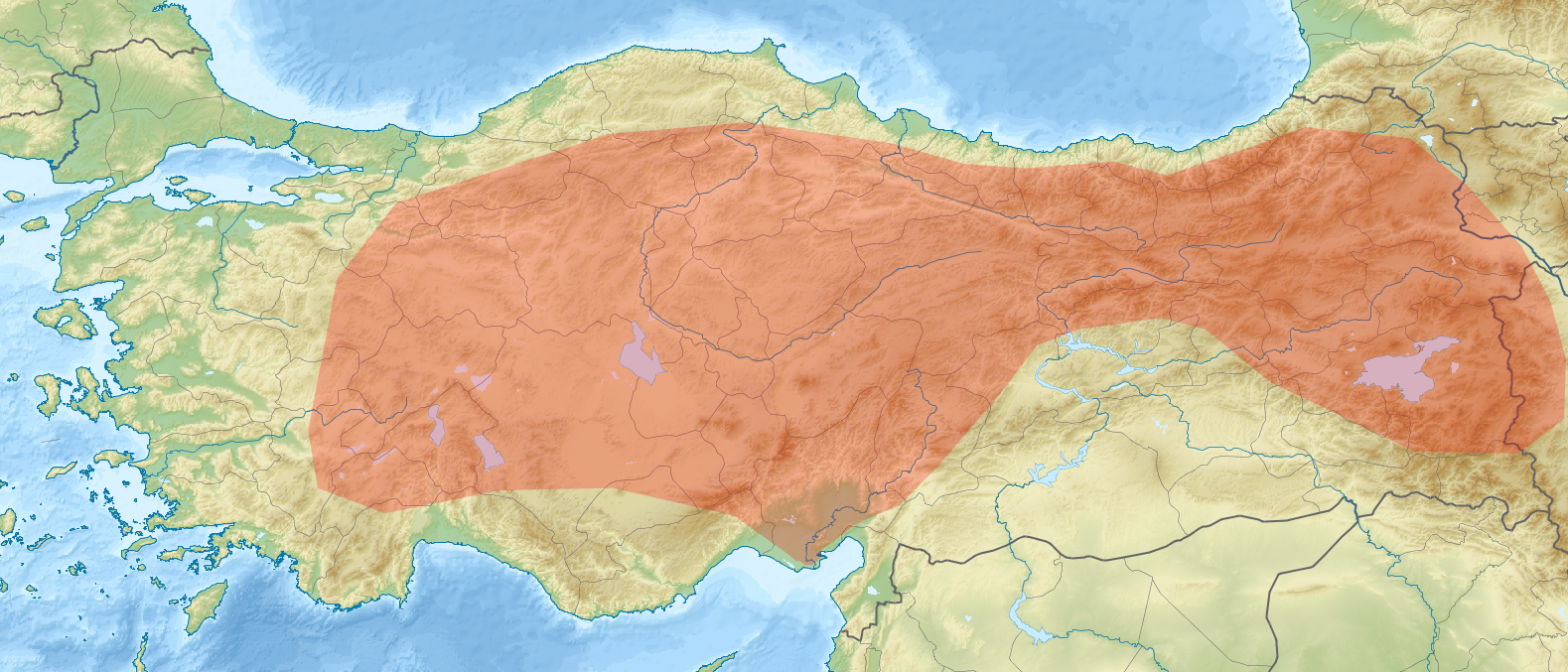 Distribution of the Spermophilus_xanthoprymnus